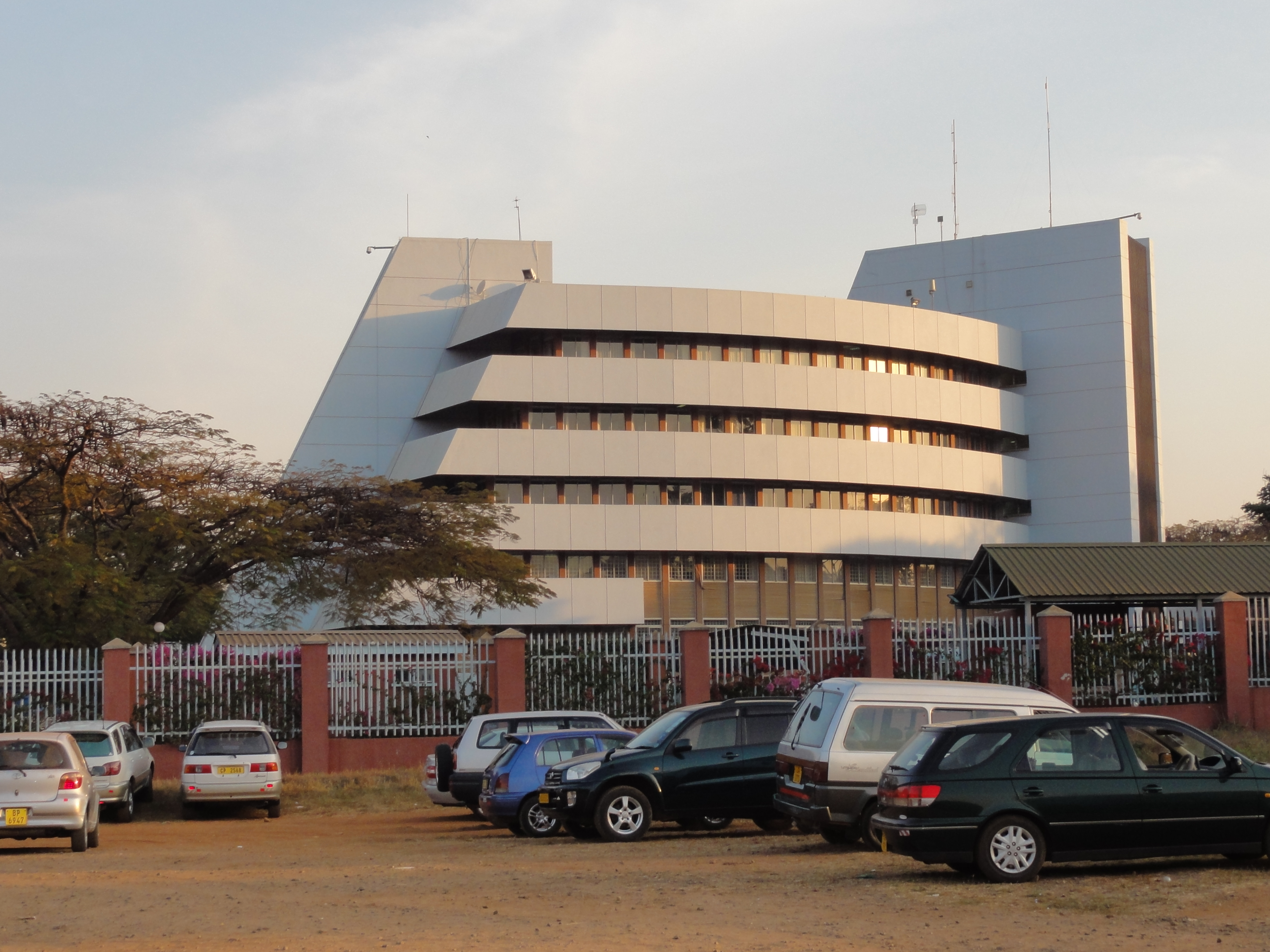 citycenter